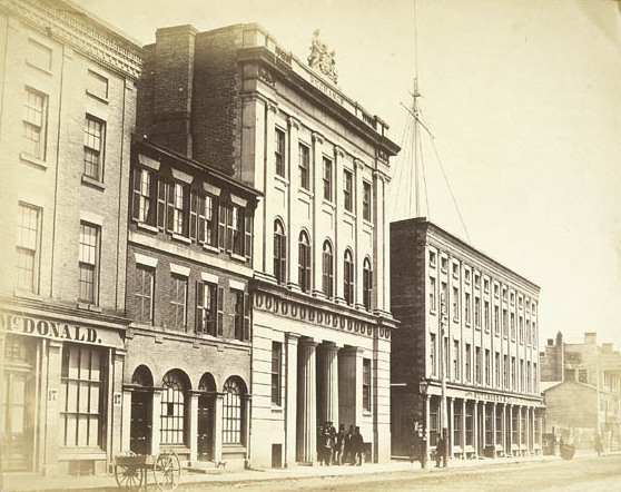 Toronto Stock Exchange, Wellington Street East, Toronto, Canada.